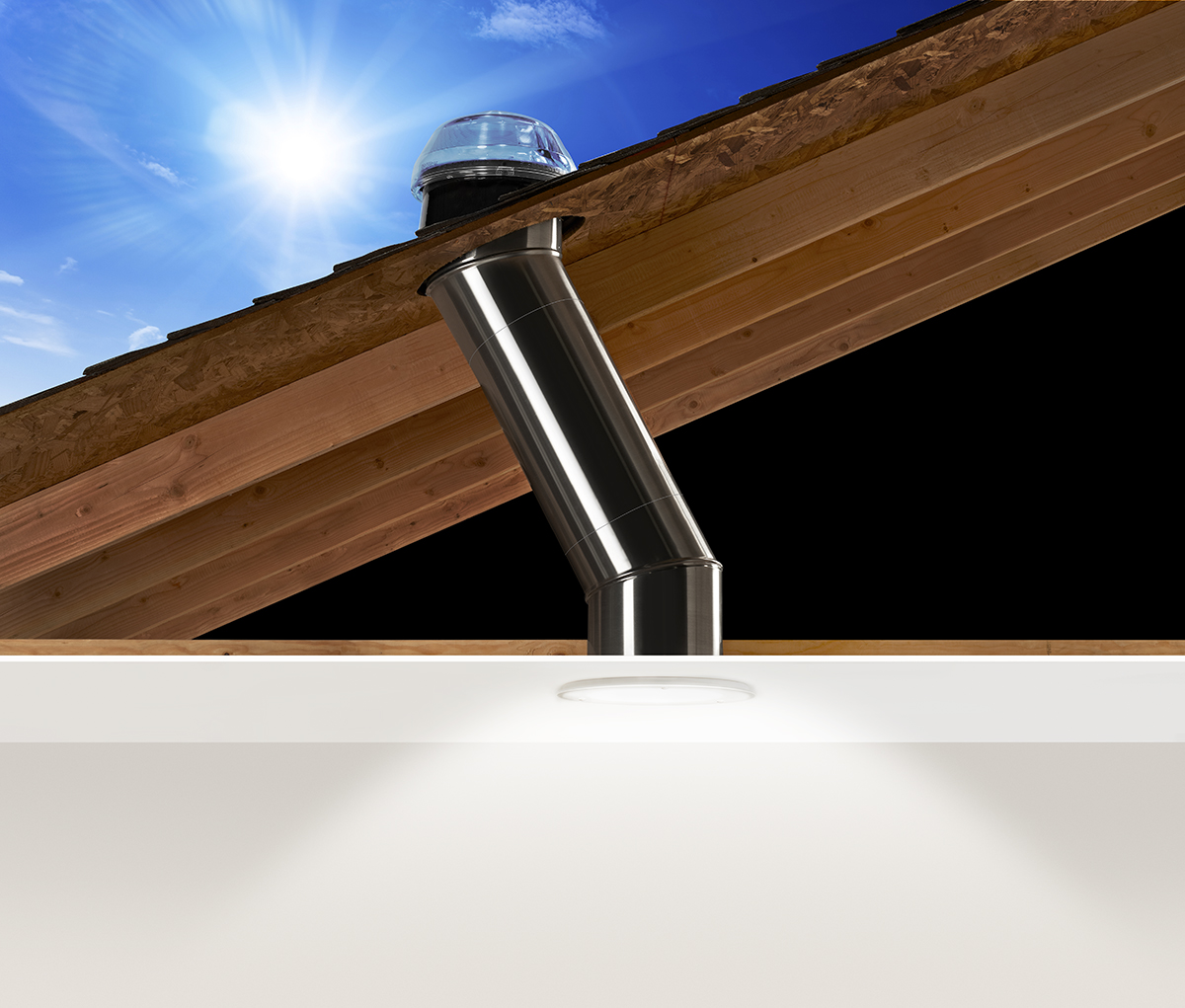 Solatube Daylighting System - residential rafter cutaway of 160 DS tubular daylighting device